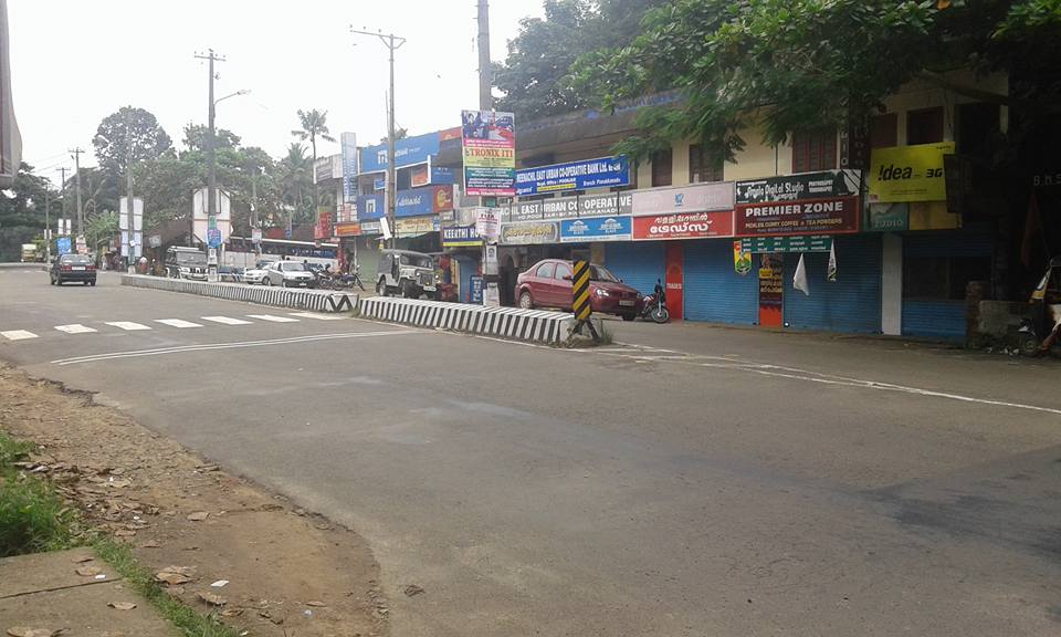 A View of Pinnakkanad from Kanjirappally side.